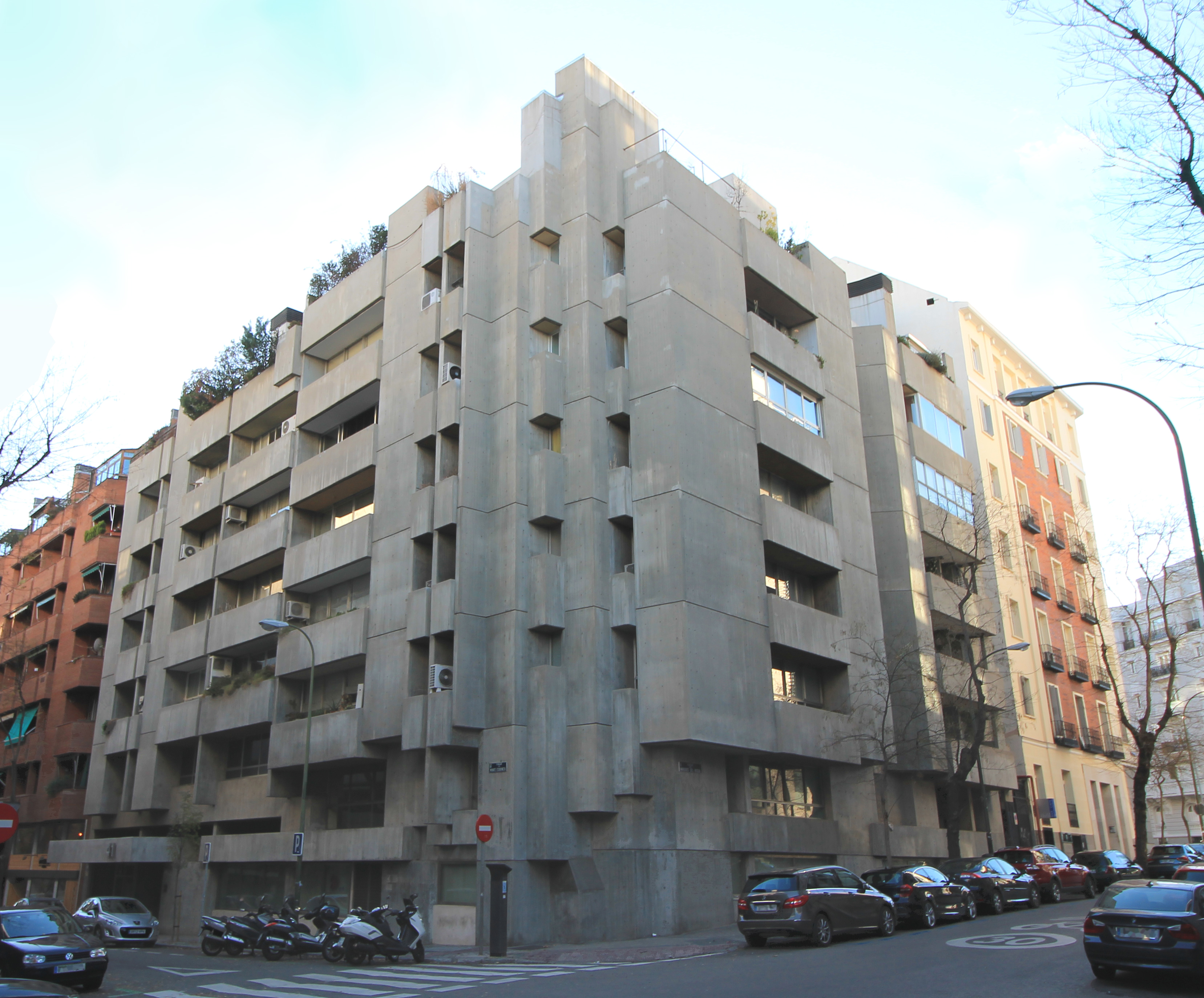 Housing building at 41st Calle del Monte Esquinza (street) in Madrid (Spain). Designed in 1966 by Javier Carvajal and built from 1966 to 1968.